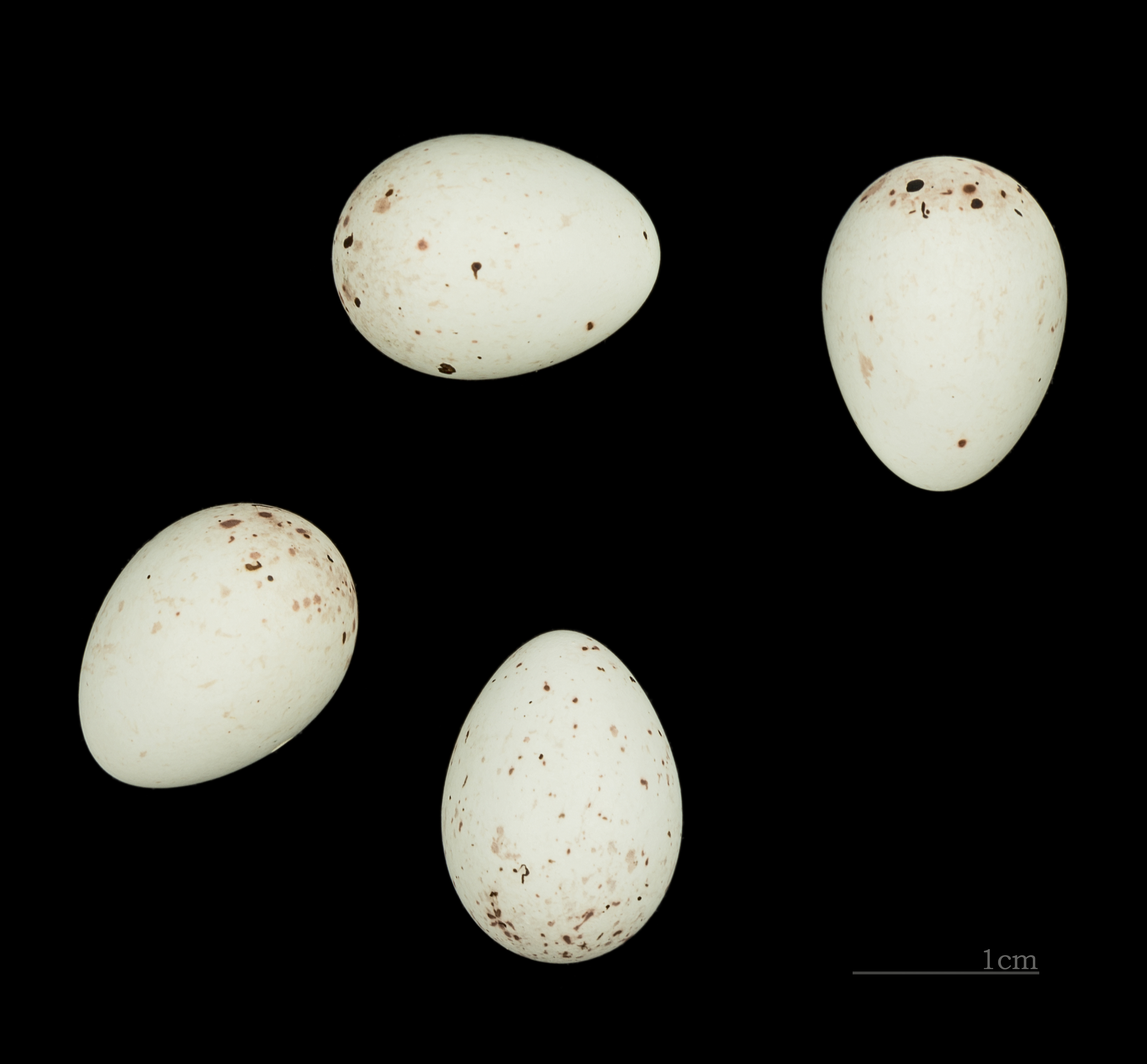 Egg of Eurasian Siskin. Collection of Perrin de Brichambaut.